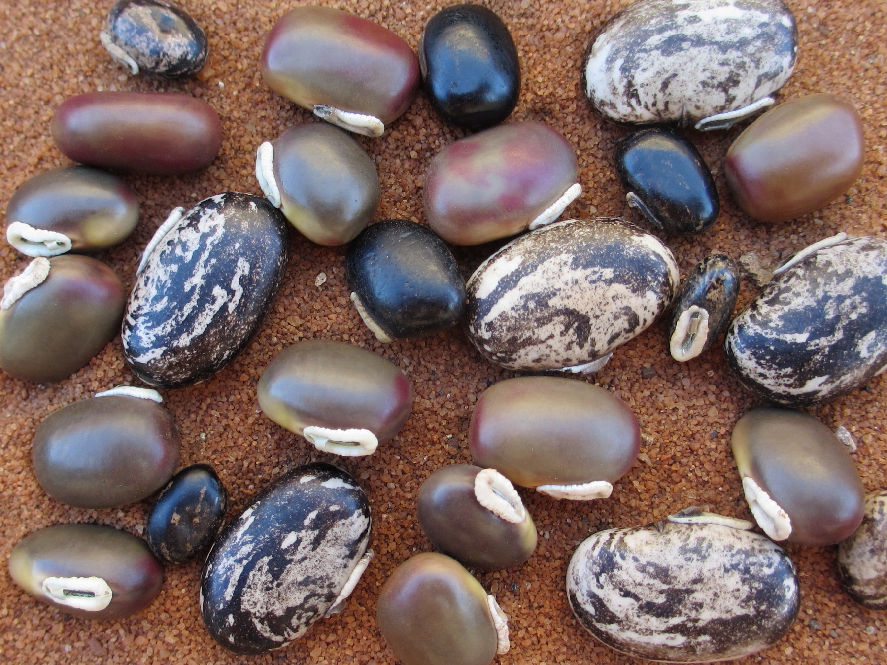 In Mozambique, velvet beans are mainly used in times of food scarcity. Processing is elaborate in order to remove (part of) the many toxins in the beans. Once prepared, the food is quite tasty but looks unattractive due to the dark muddy appearance. A big plus when comparing velvet beans with most other tropical beans - the beans are not attacked by weevils or other post-harvest insects and so can be stored for several years when needed. This picture shows the variablity in local varieties in Cabo Delgado province of Mozambique. Wild Mucuna pruriens often hybridizes spontaneously with cultivated velvet bean and intermediate forms are not rare.